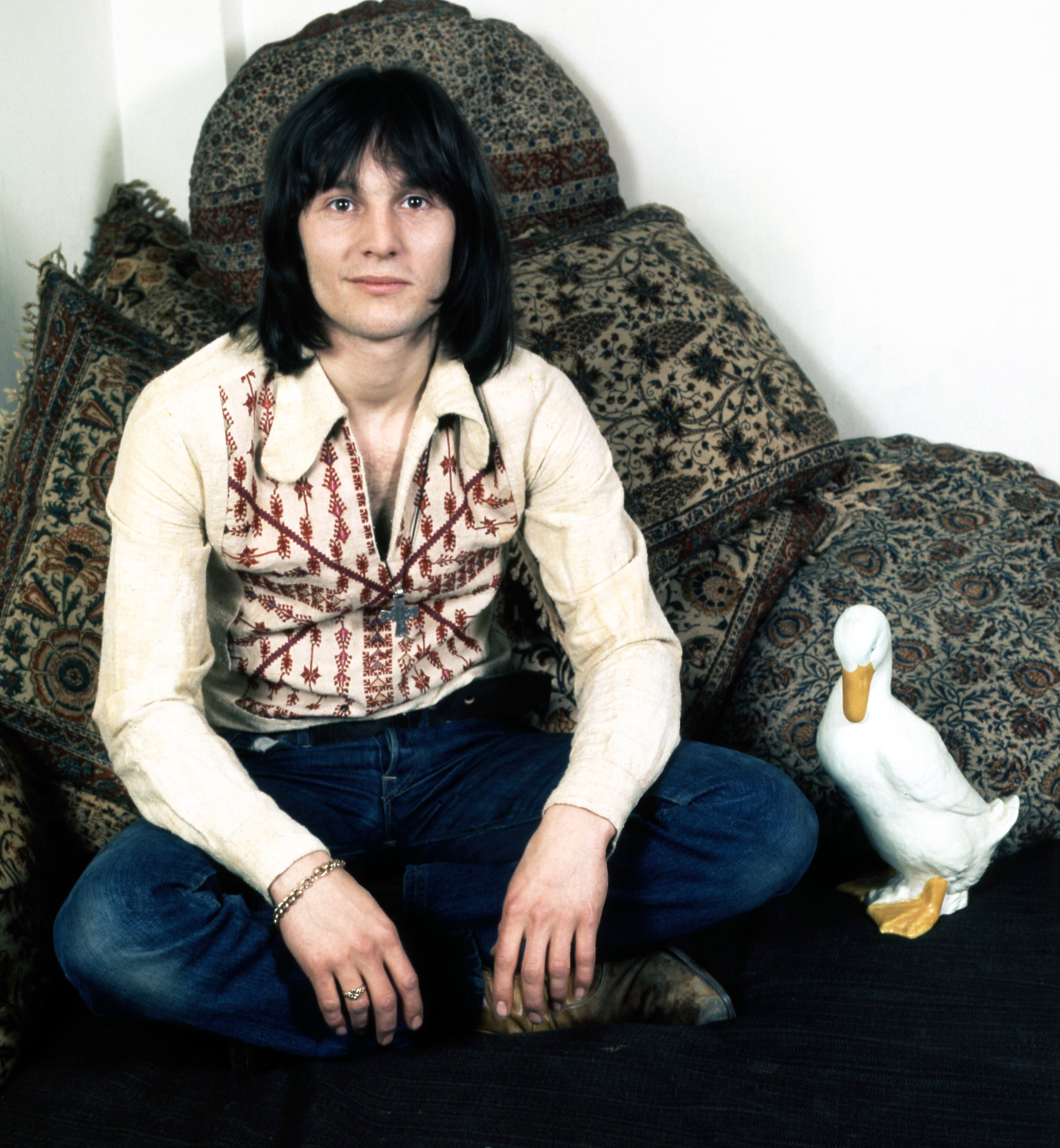 Murray Head